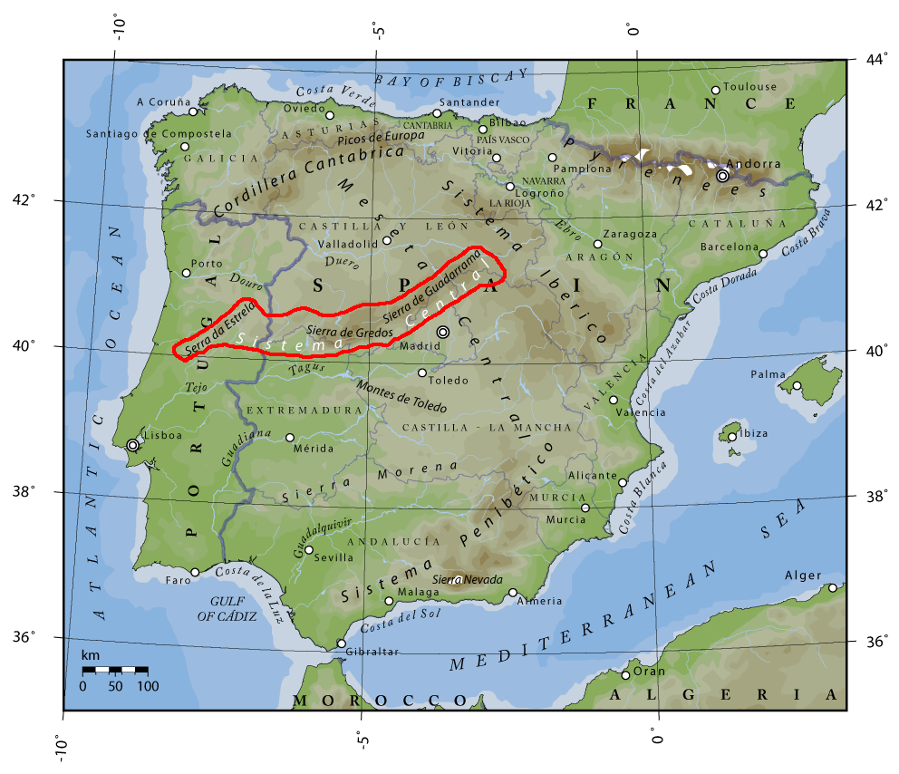 Topographical map of Spain. Author: Bas de Jong Sources: U.S. National Geophysical Data Center (NGDC) The Times Atlas of the World. 11th ed. London: Times Books, 2005. "Spain." Encyclopædia Britannica from Encyclopædia Britannica Online. [Accessed February, 2006]. Contributors of Wikipedia, "Sistema Central," Wikipedia, La enciclopedia libre, (accessed February 2006).